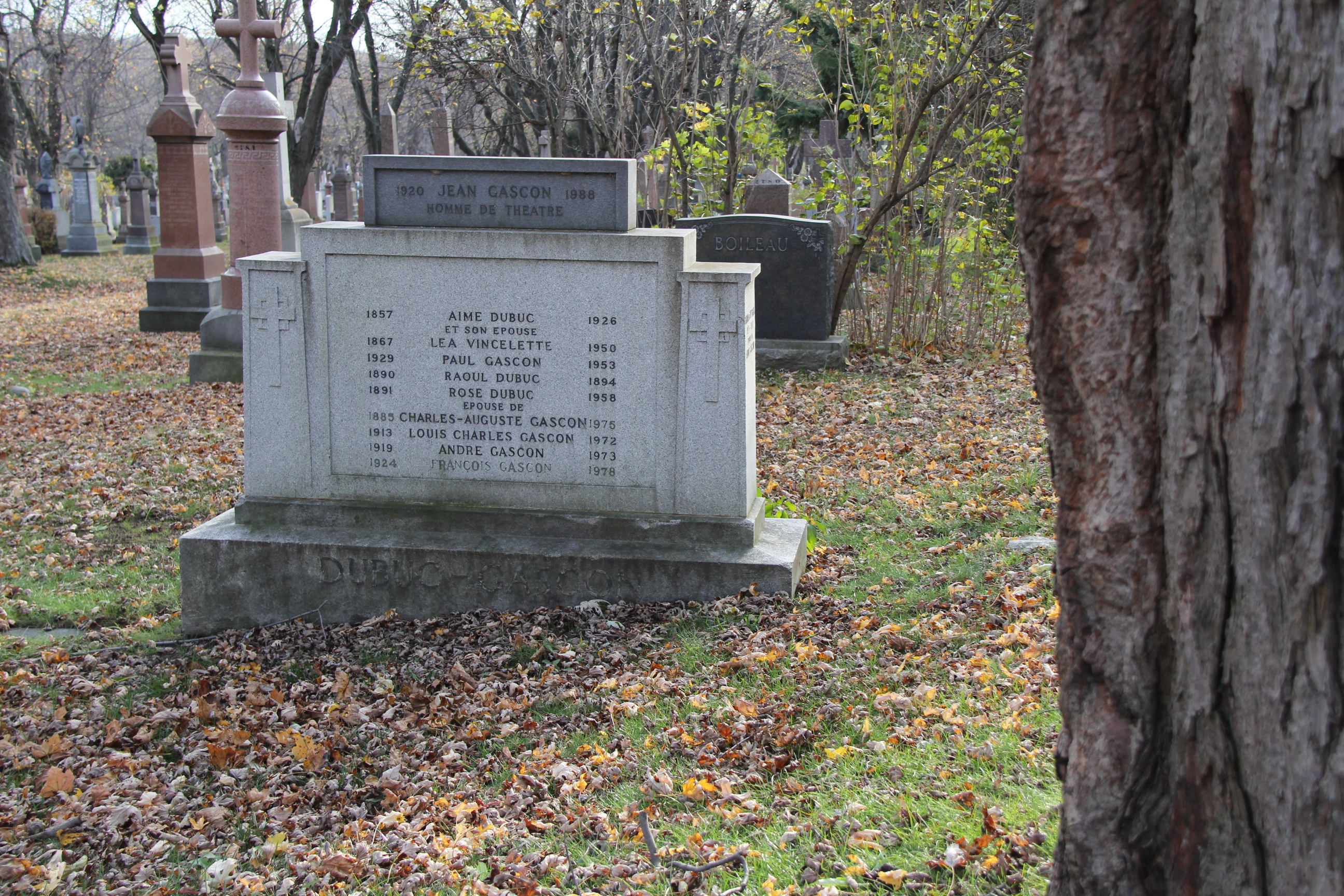 Jean Gascon’s (1920-1988) tombstone, Notre-Dame-des-Neiges Cemetery (P2809), Montreal.